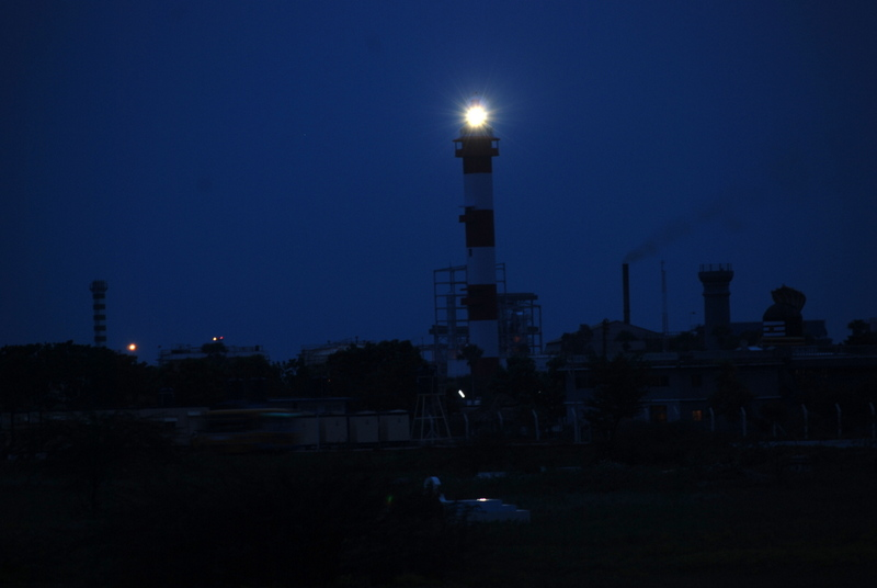 kkd lighthouse